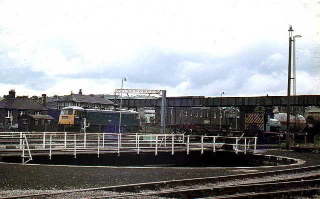 Railway Lines at Carnforth View across to the main railway line at Carnforth from the turntable in the steam centre.